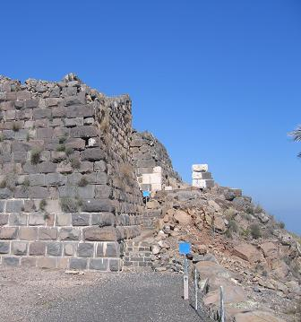 The main gate of Belvoir fortress, Israel.